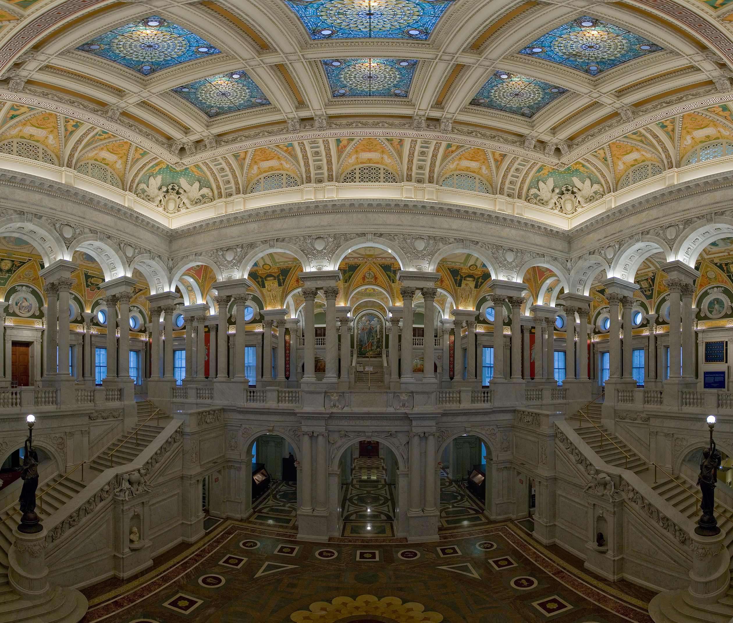 A 2x3 segment panoramic view of the Great Hall of the Library of Congress in Washington D.C., United States.